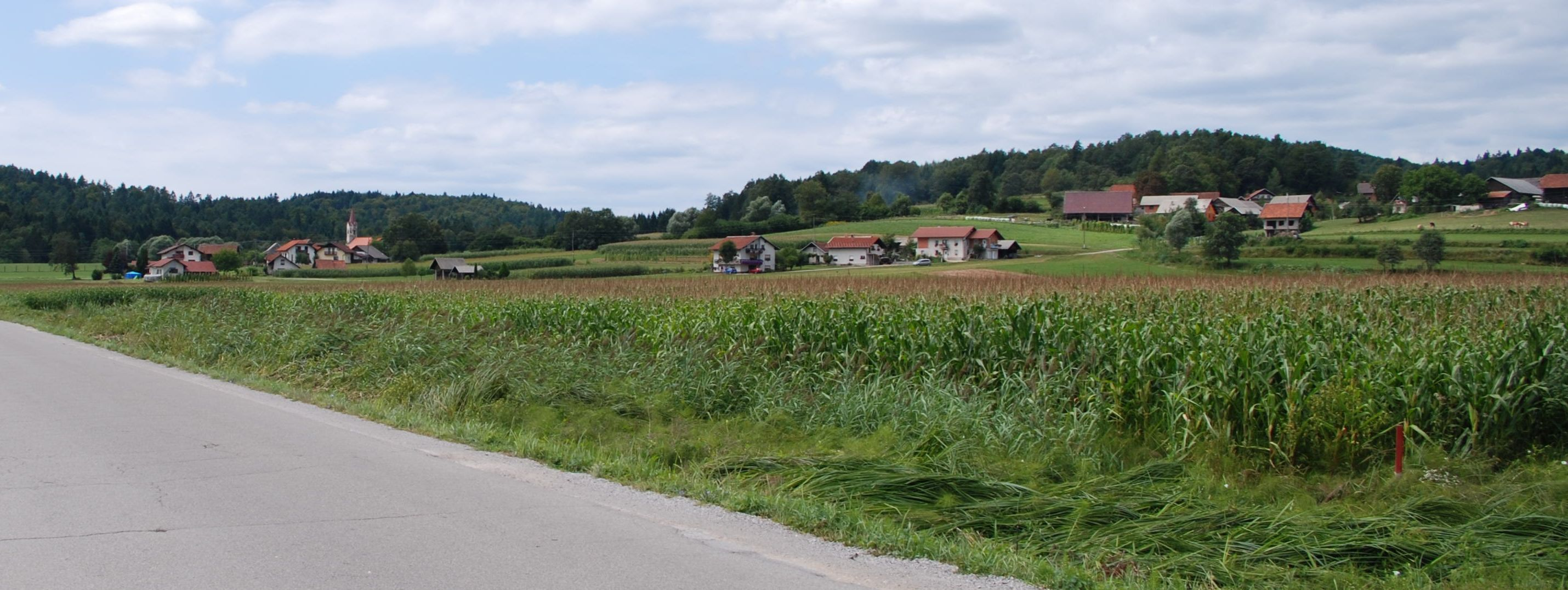 Gorenje Jesenice, Municipality of Šentrupert, Slovenia. St. Cancianus' Church in the background.